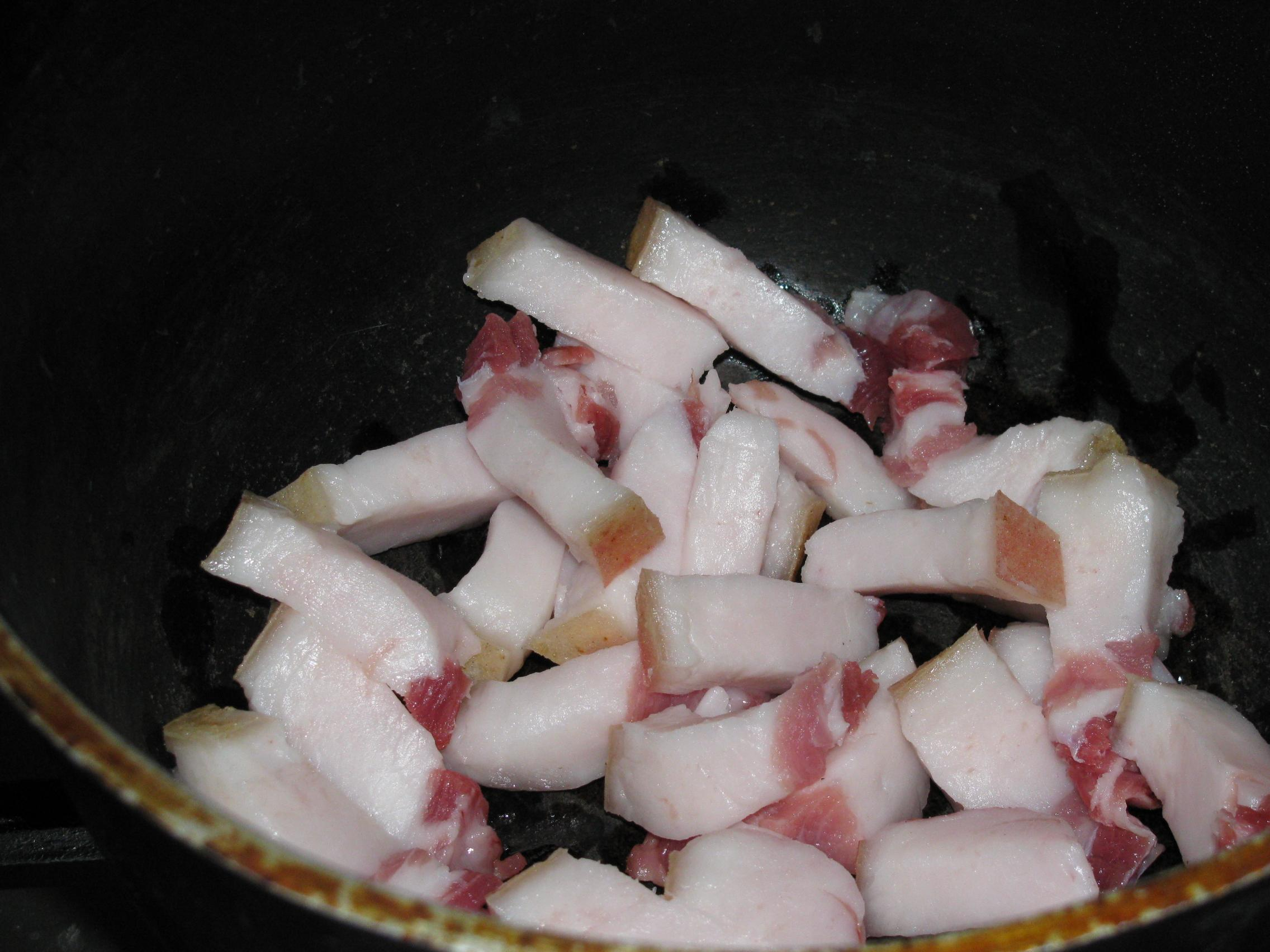 Salo (pork fatback) prepared for rendering lard